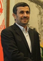 Mahmoud Ahmadinejad